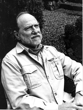 The poet Leonard Nathan, in his backyard in Kensington California. Photograph taken by Andrew Nathan and uploaded with written permission.